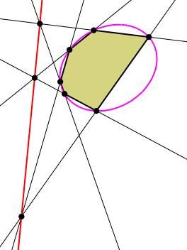 Pascal thm